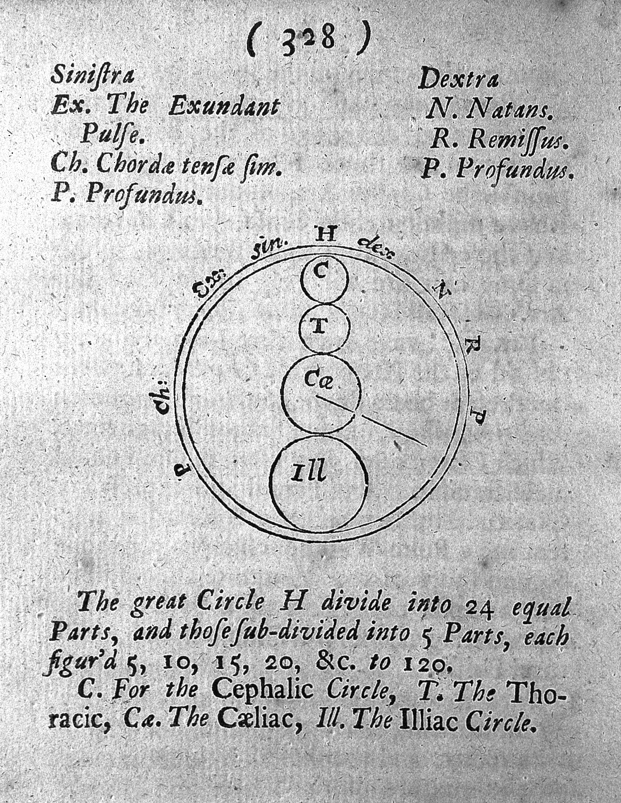 The pulse watch. Rare Books Keywords: Diagnosis; John Floyer